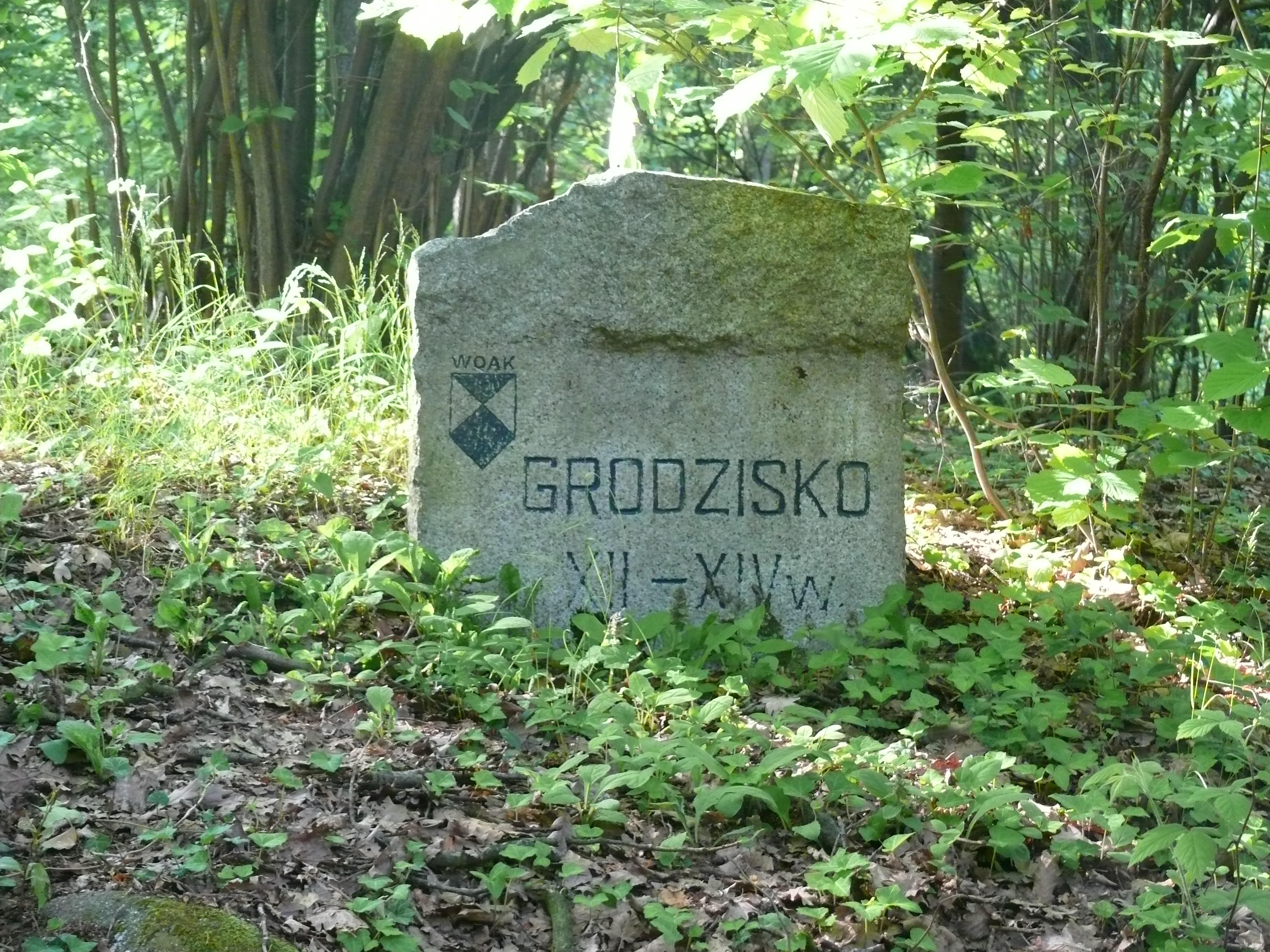 Bagno (Poland - Lower Silesian Voivodeship).